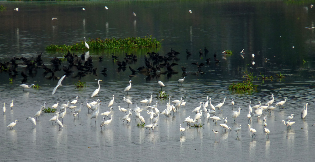 Cormorants and Egrets fishing at Singanallur Lake, Coimbatore